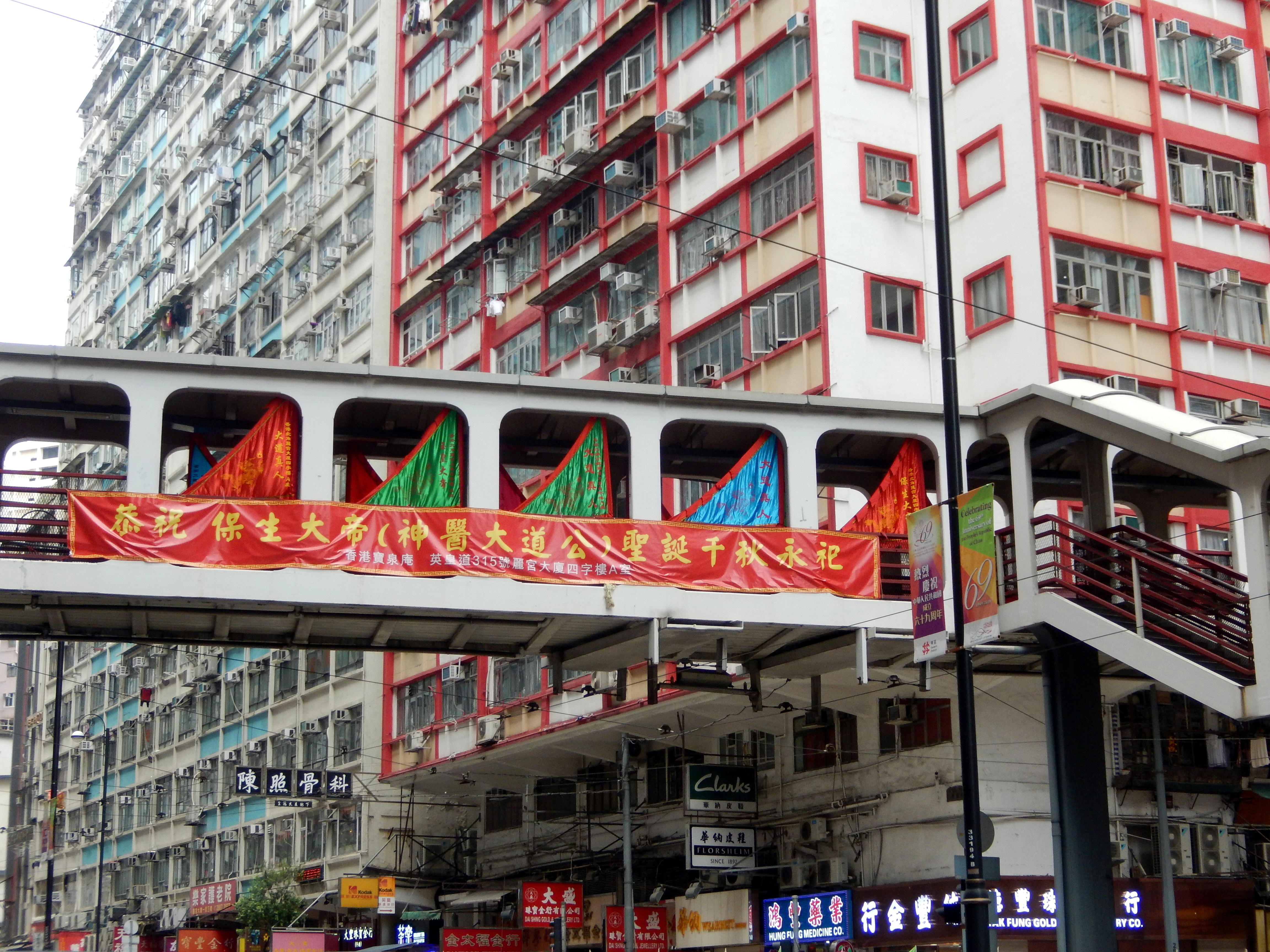 A banner celebrating the birthday of Baosheng Dadi on North Point Rd Footbridge